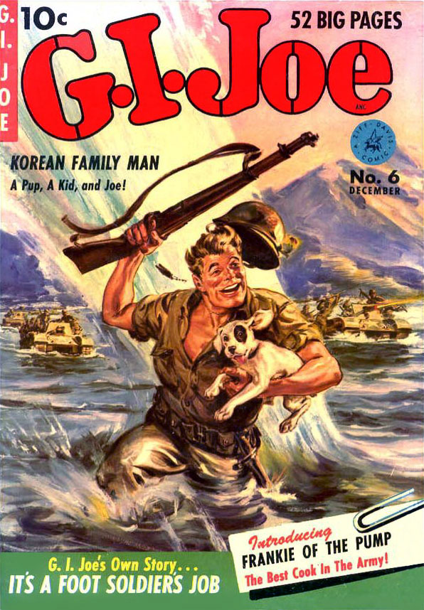 Painted cover to G.I.Joe number 6 (Ziff Davis, December 1951). This particular incarnation of the character served during the Korean War. Artwork by Norman Saunders.